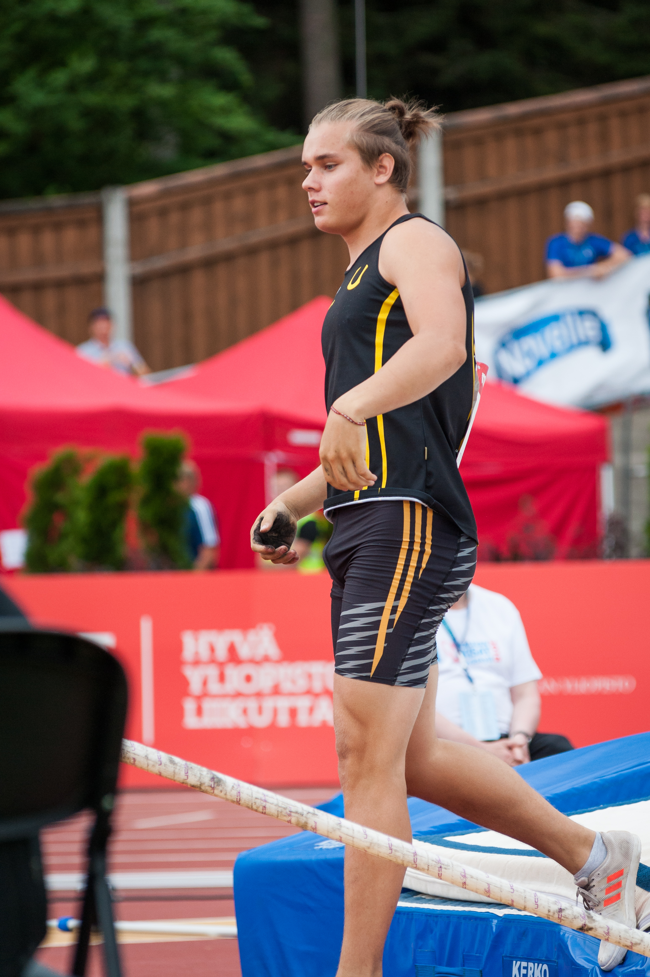 Men's pole vault competition at the 2018 Kalevan Kisat, the Finnish championships in athletics, in Jyväskylä, Finland.